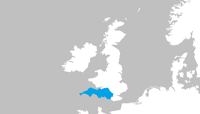 Locator map of Kingdom of Wessex in 803